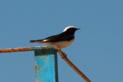 Oenanthe pleschanka in Crimea